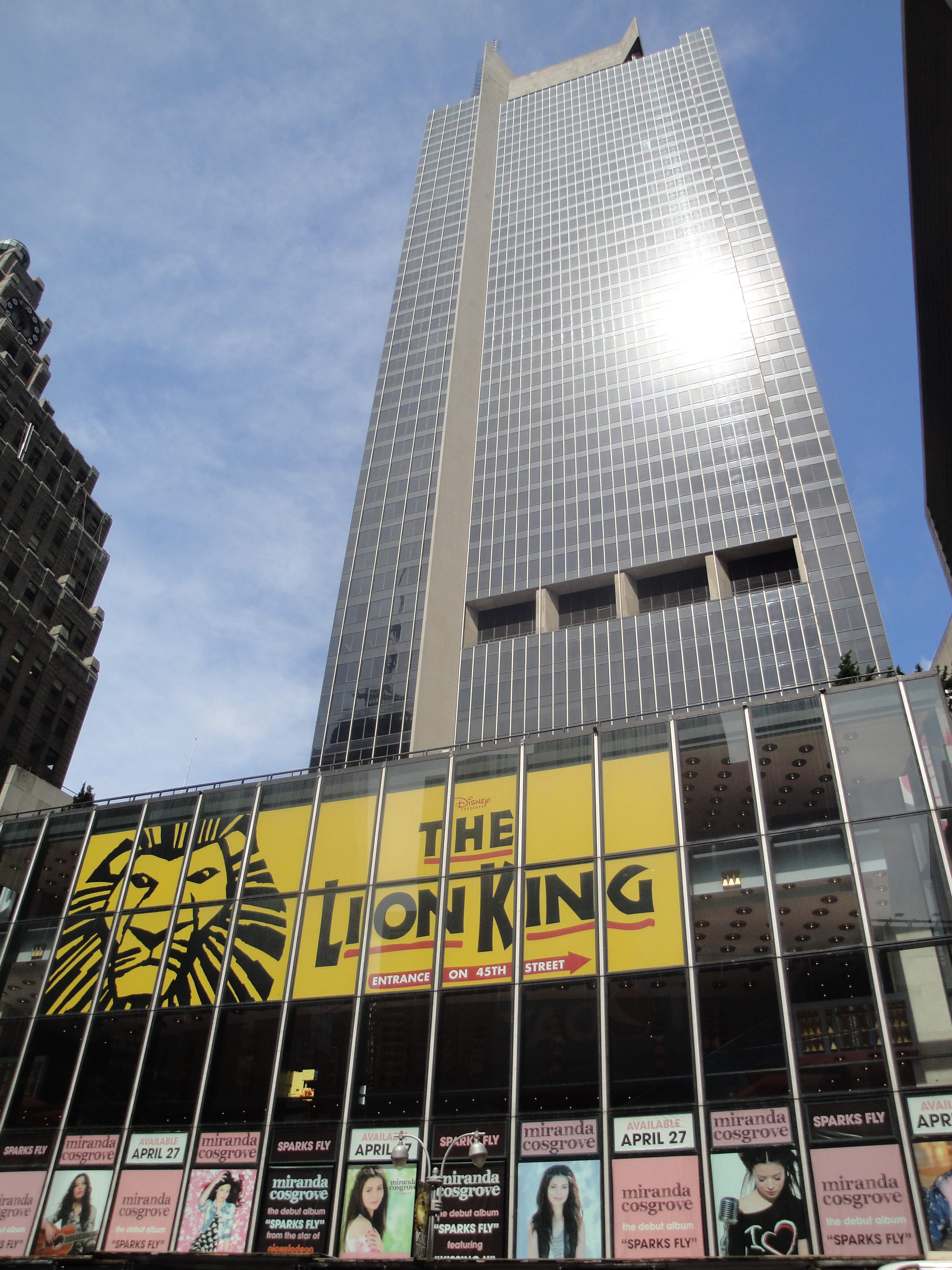 The office tower of One Astor Plaza in Times Square, New York City. May 2010